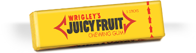 The first product to be scanned with a GS1 barcode